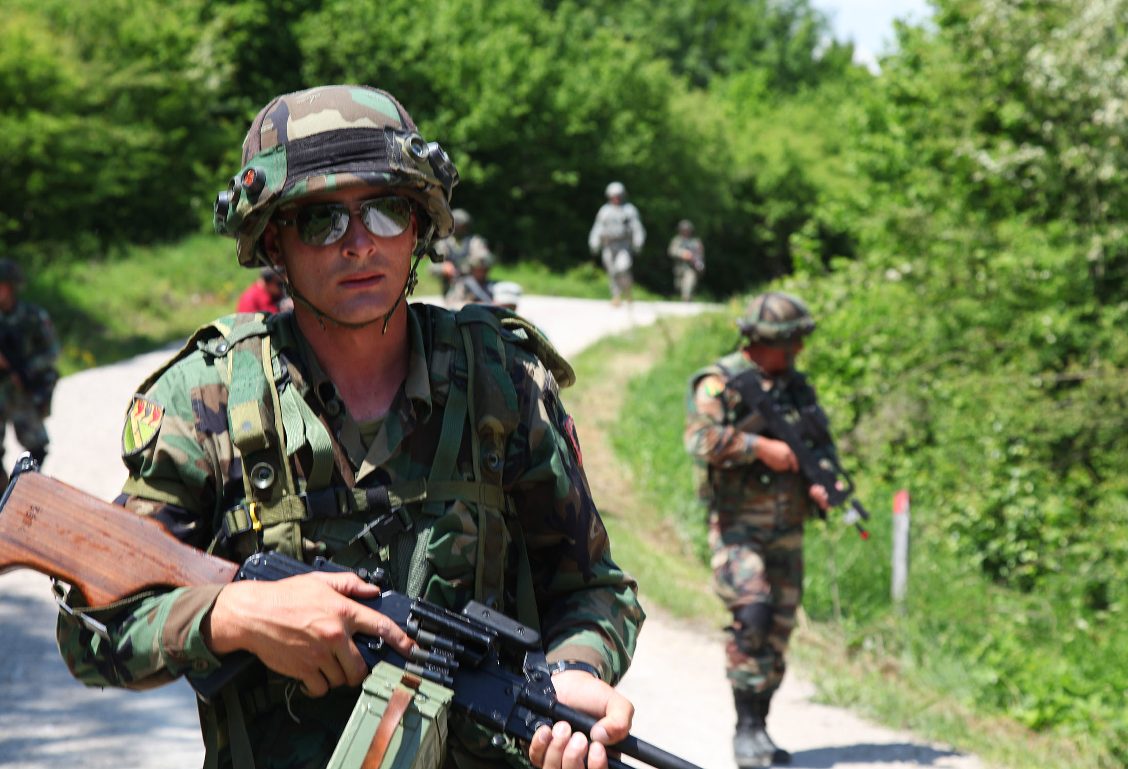 Soldiers from the Albanian Land Forces practice tactical drills as they conduct a movement to enemy contact exercise during the Immediate Response 2012 (IR12) training event held in Slunj, Croatia, on Monday, May 28, 2012. IR12 is a multinational tactical field training exercise that will involve more than 700 personnel primarily from the U.S. Army Europe’s 2nd Calvary Regiment and Croatian armed forces, with contingents from Albania, Bosnia-Herzegovina, Montenegro and Slovenia. Macedonia and Serbia will send observers to the exercise. The exercise is a part of USEUCOM's joint training and exercise program designed to enhance joint and combined interoperability between the U.S. Army, U.S. Air Force, Croatian Armed Forces and partner nations, and will help prepare participants to operate successfully in a joint, multinational, interagency, integrated environment. (U.S. Army photo by SPC Lorenzo Ware/Released)